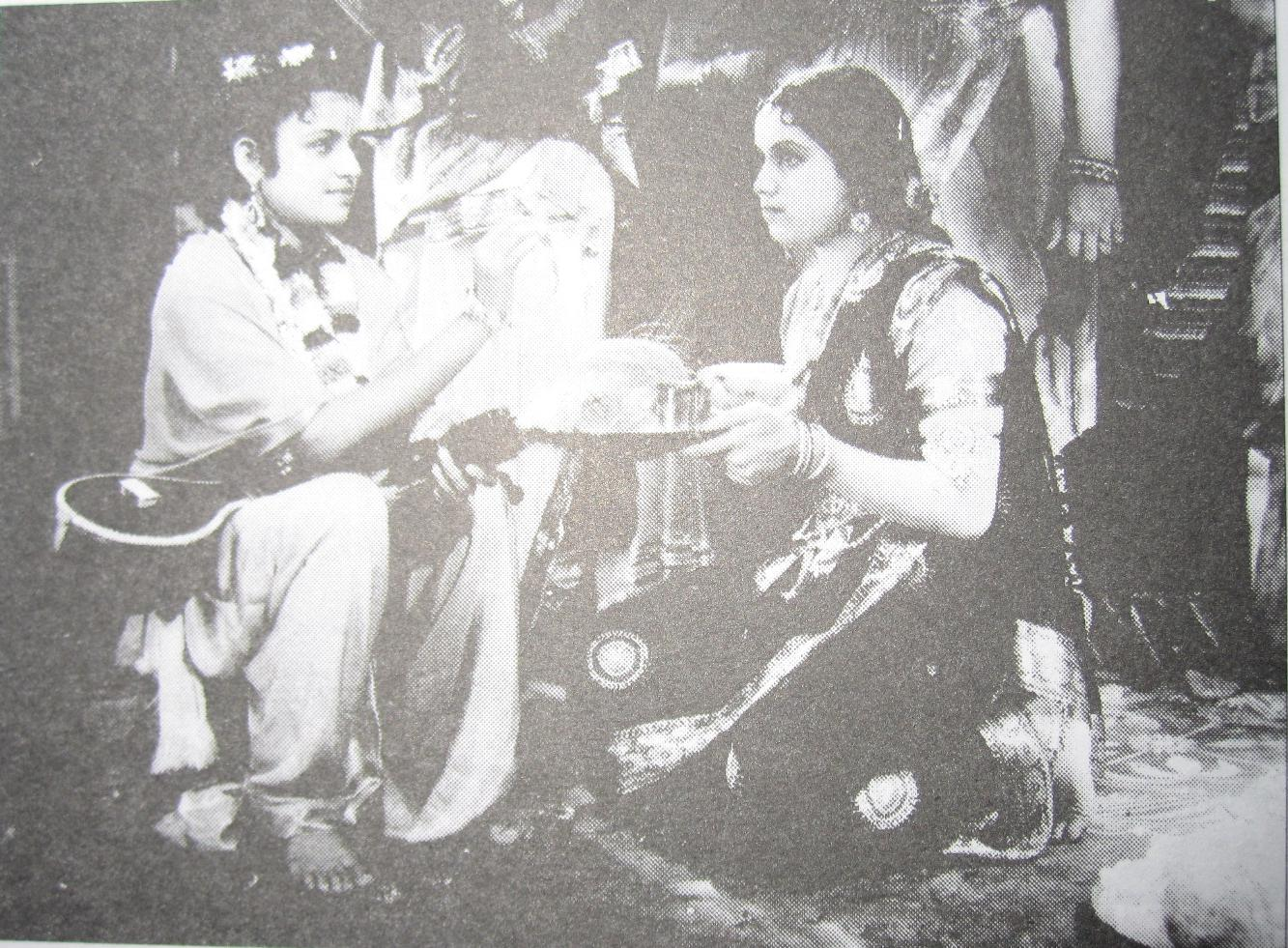 Left : M. S. Subbulakshmi (as Narada) and Right: Shanta Apte (as Savithri) in the 1941 Tamil film Savithri